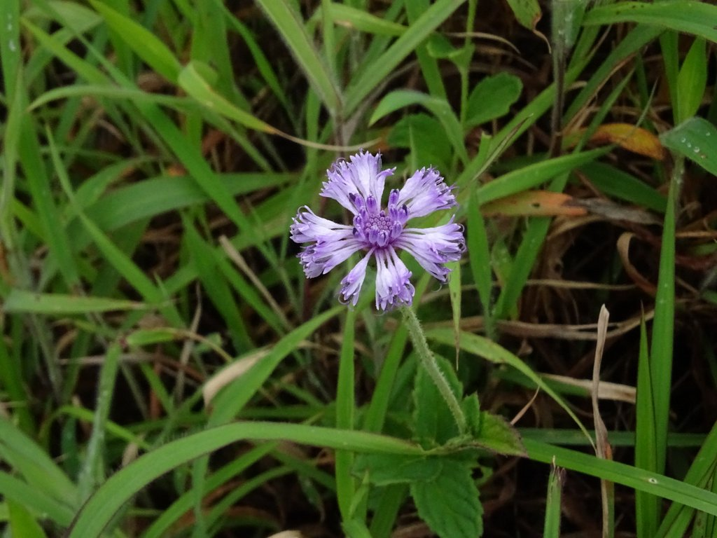 Adenoon indicum seen in the grasslands of Kudremukh Karnataka